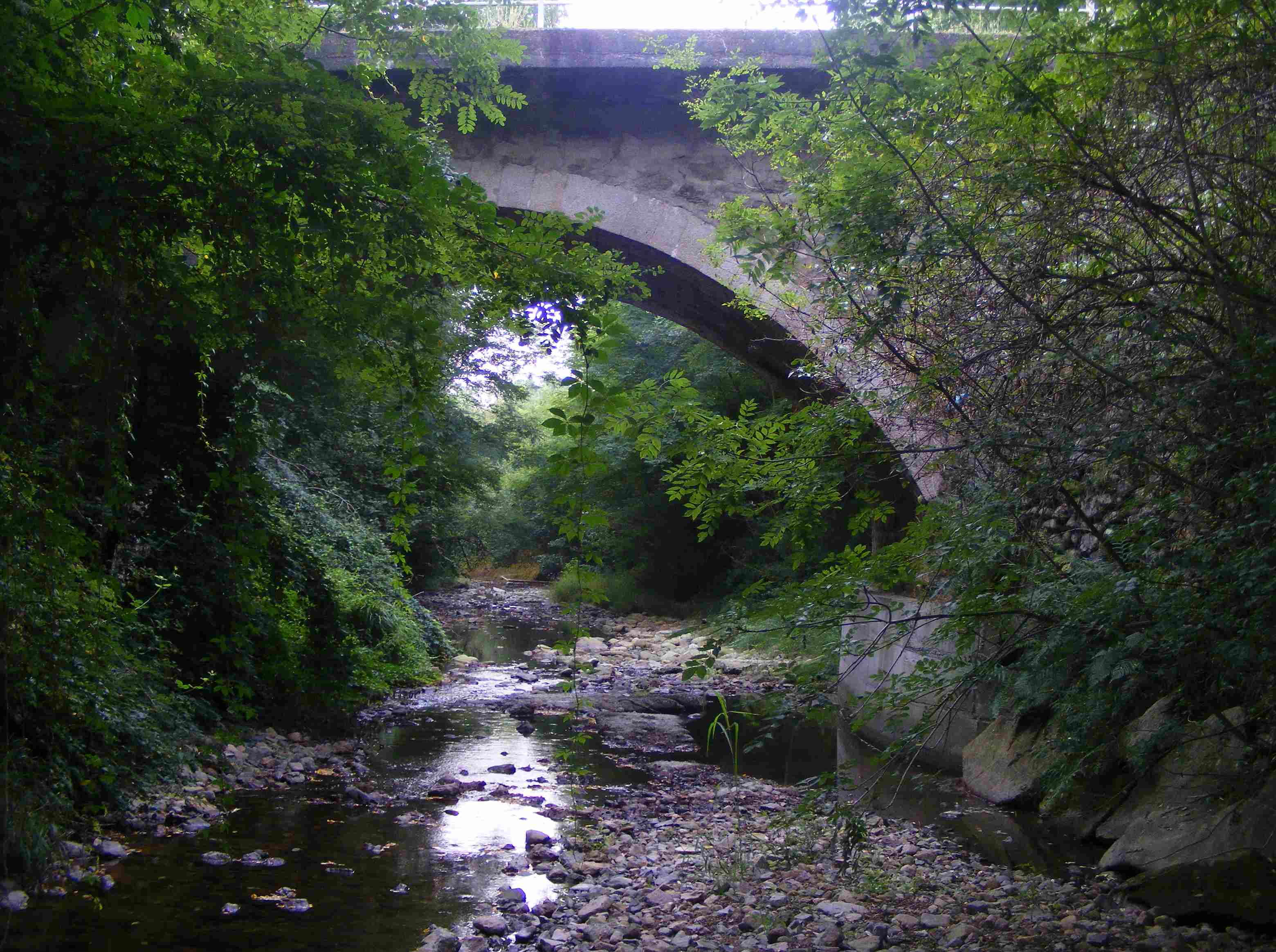 Bridge on Bisingana creek of the SP 233 Masserano-Brusnengo (BI, Italy)